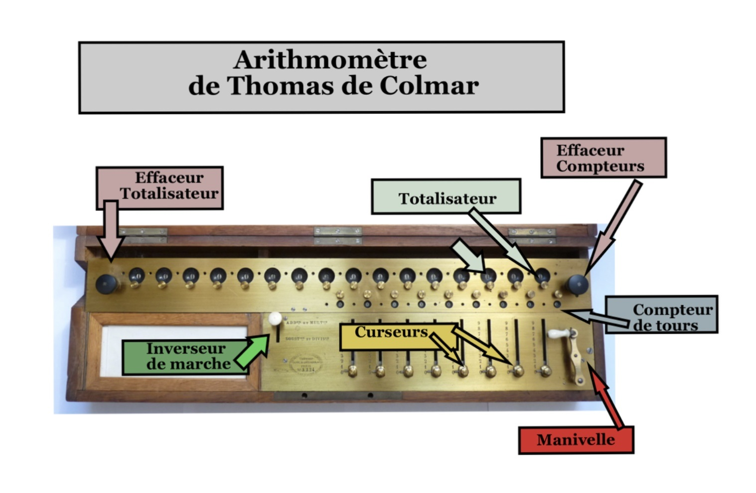 Thomas de Colmar's arithmometer